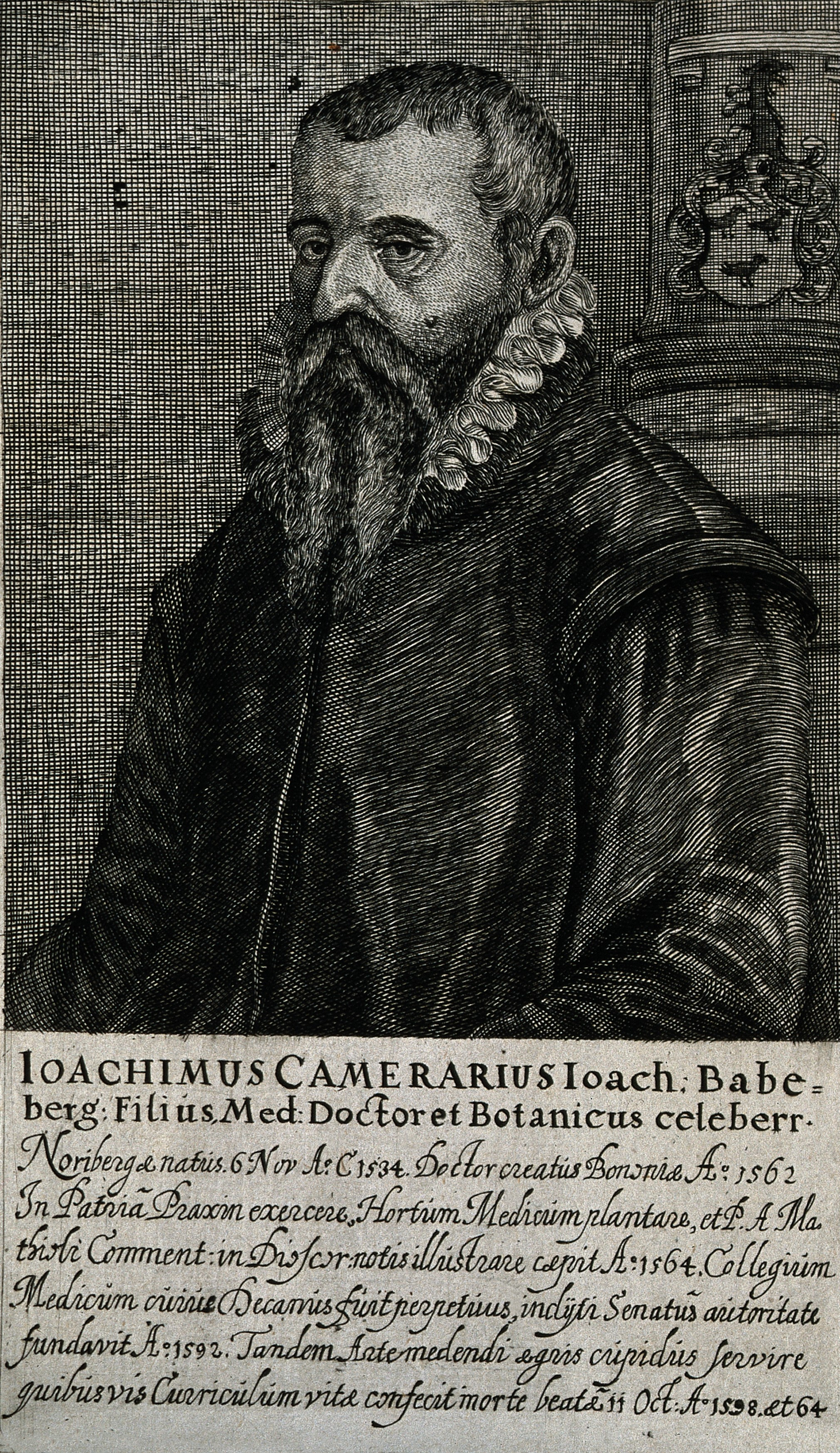 Joachim Camerarius the Younger. Line engraving. Iconographic Collections Keywords: portrait prints; engravings; Joachim Camerarius; camerarius, joachim, 1534-1598